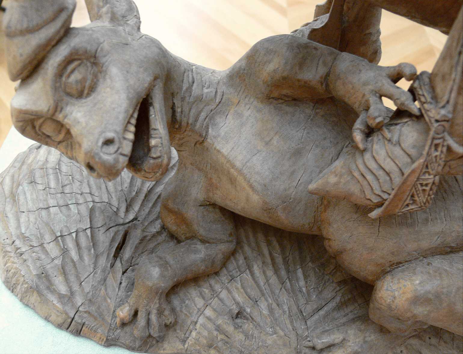 Tilman Riemenschneider: Saint George fighting the Dragon, c. 1490/1495, limewood. Skulpturensammlung (inv. no. 414, acquired in 1887), Bode-Museum Berlin.